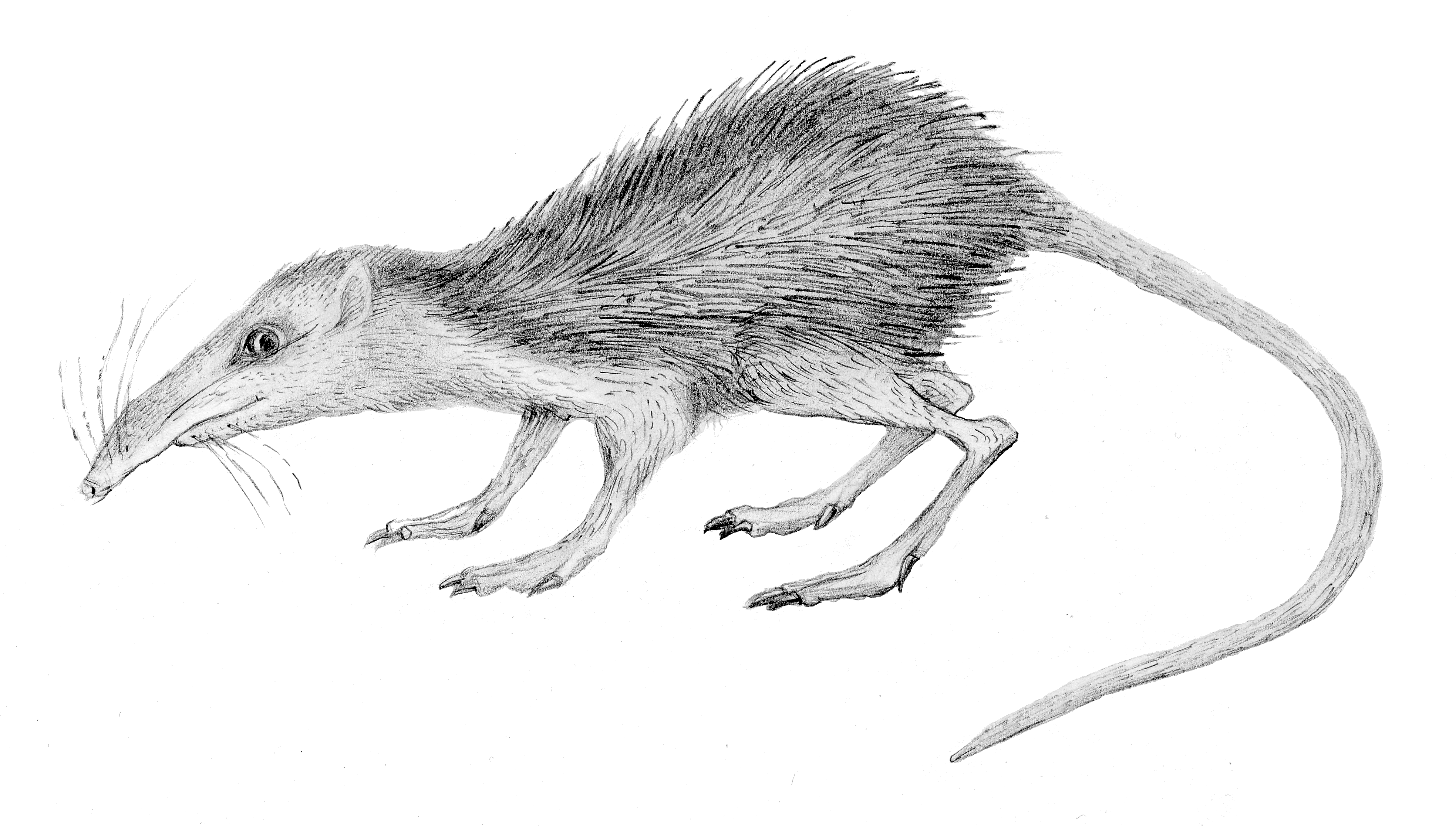 Reconstruction of Macrocranion tenerum, redrawn after: Gerhard Storch and Gotthard Richter: Zur Paläobiologie der Messeler Igel. Natur und Museum 124 (3), 1994, pp. 81–90 (p. 84); and after: Kenneth D. Rose: The beginning of the age of mammals. Johns Hopkins University Press, Baltimore, 2006, pp. 1–431 (p. 146 (fig. 9.7))